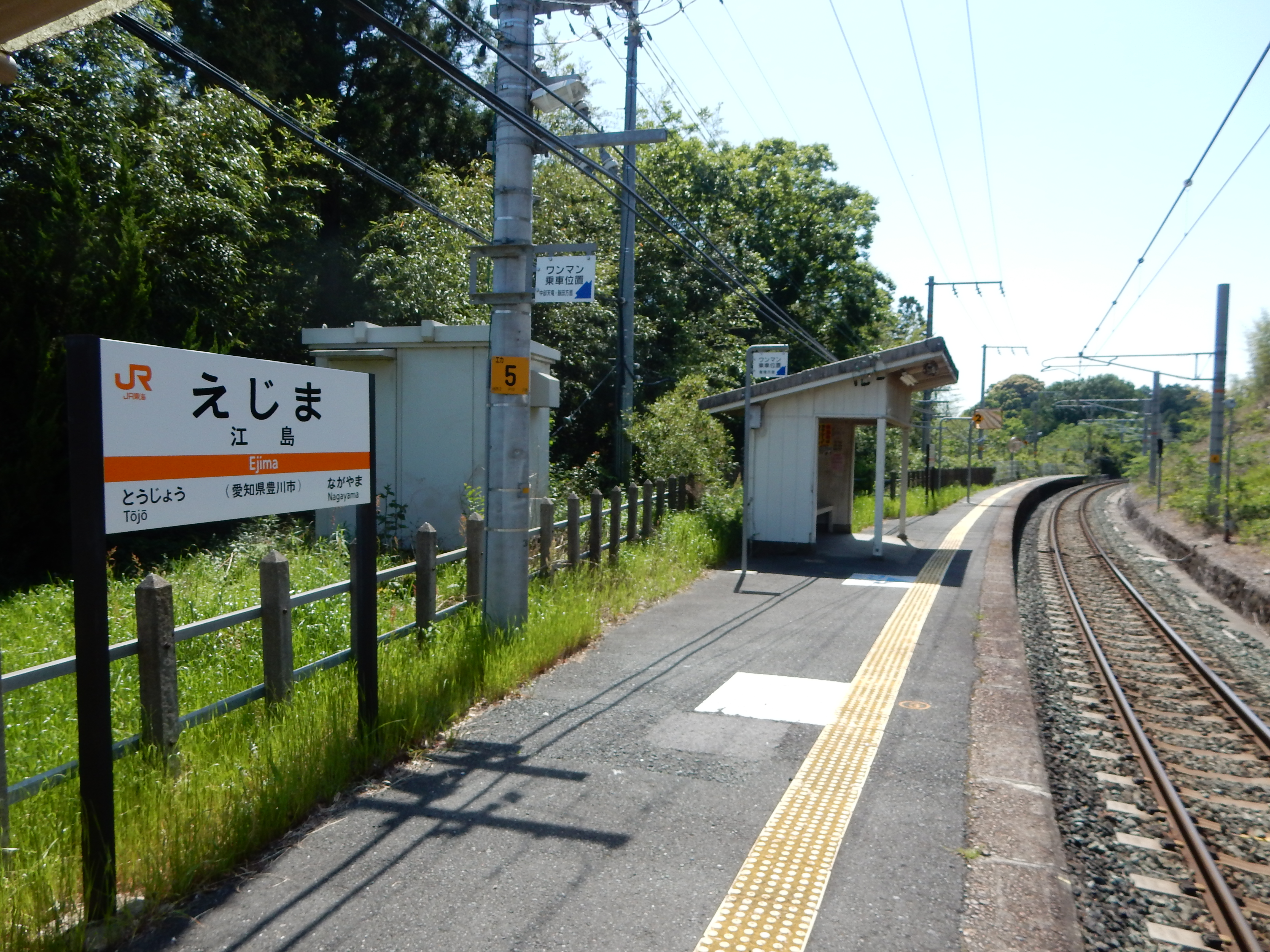 Ejima_Station, located at 58 Maruzuka, Tojo, Toyokawa, Aichi, Japan